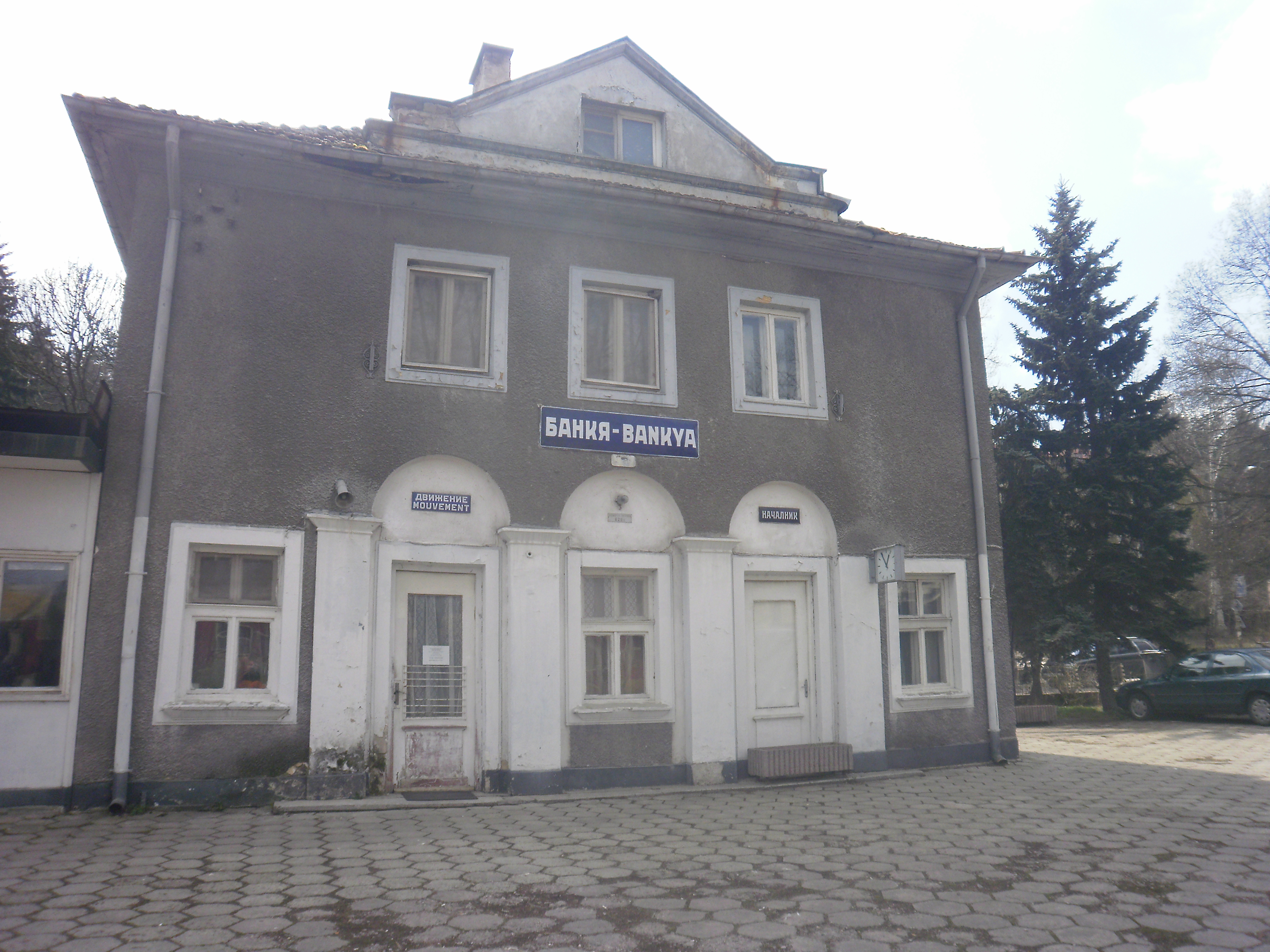 Bankya railway station, Bulgaria